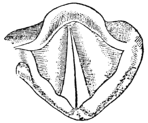 Vocal cords in position for speaking or singing